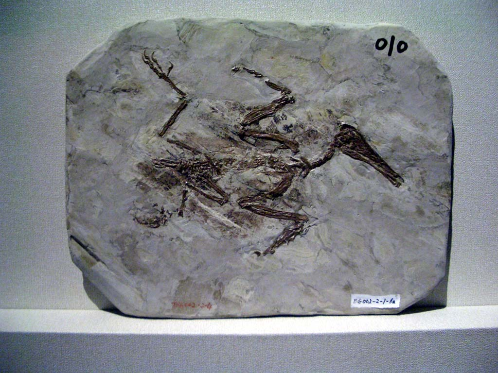 Longipteryx chaoyangensis fossil displayed in Hong Kong Science Museum